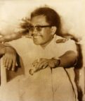 Hasan Basri Durin as Mayor of Jambi, Indonesia